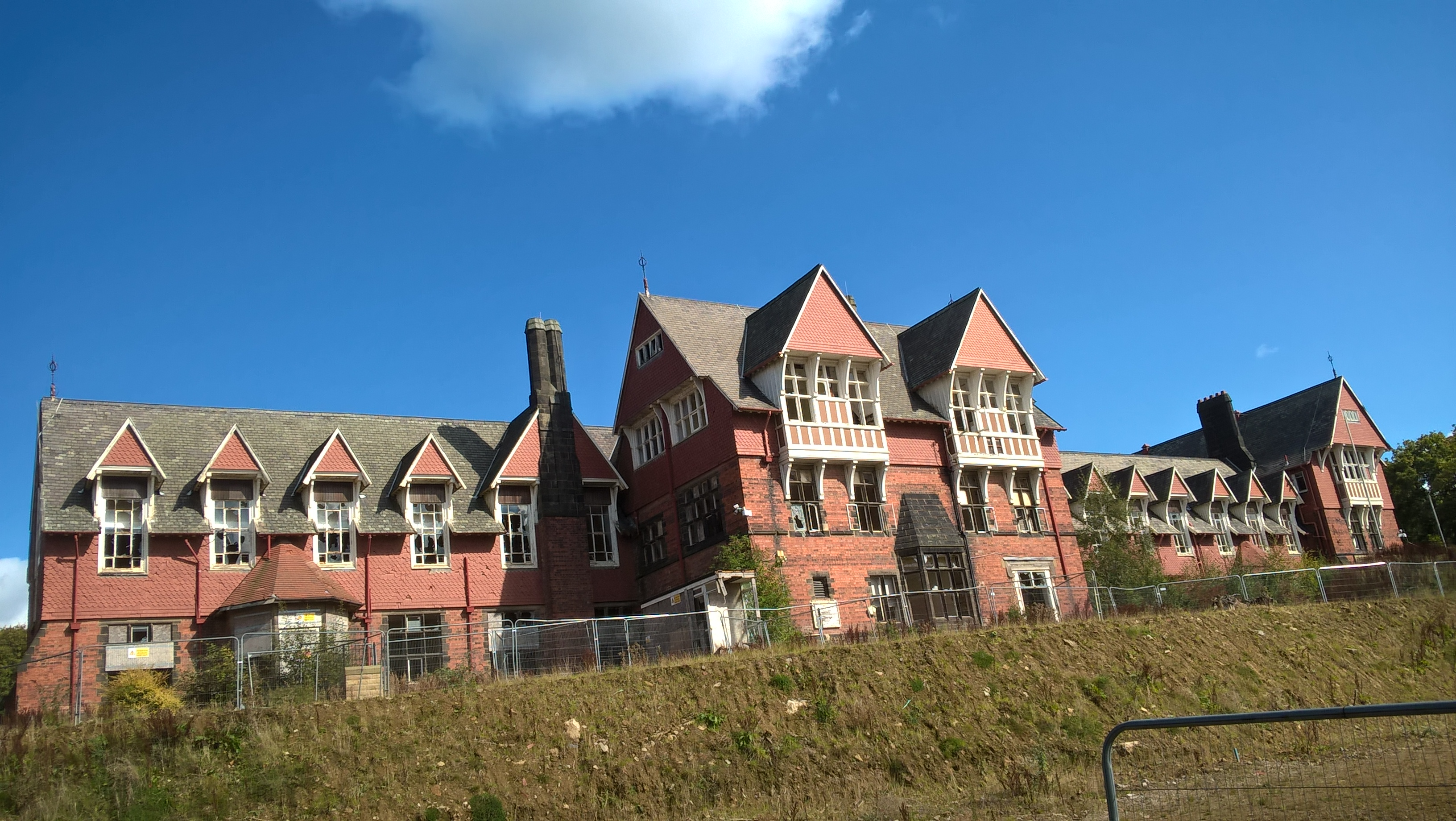 Cookridge Hospital (closed), Leeds. Main building.